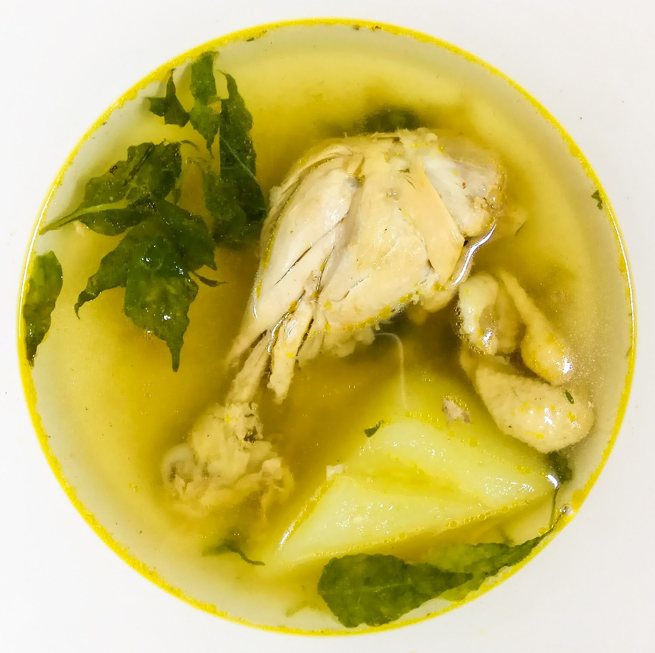 A popular Filipino chicken giner soup.